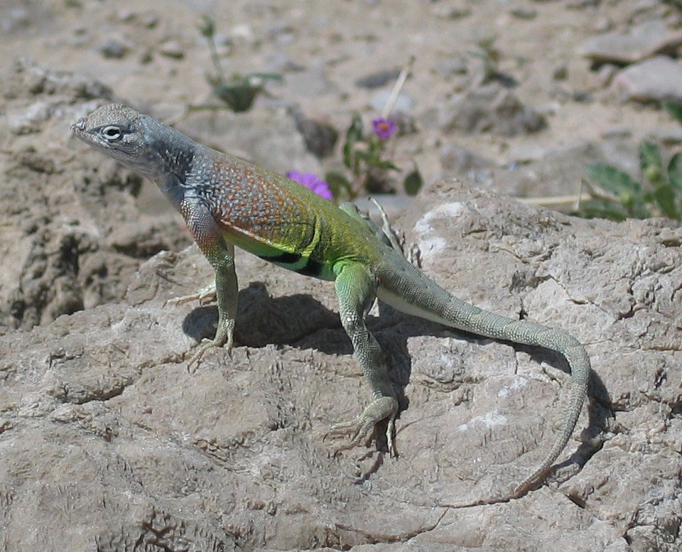 Greater earless lizard (Cophosaurus texanus), photographed in Big Bend NP, TX, USA. Identified by B kimmel 13:26, 26 October 2005 (UTC)